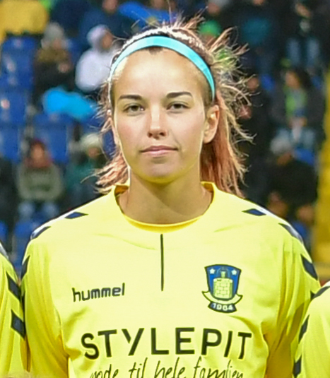 2016/10/05 UEFA Women's Champions League - SKN St. Poelten vs Broendby IF.